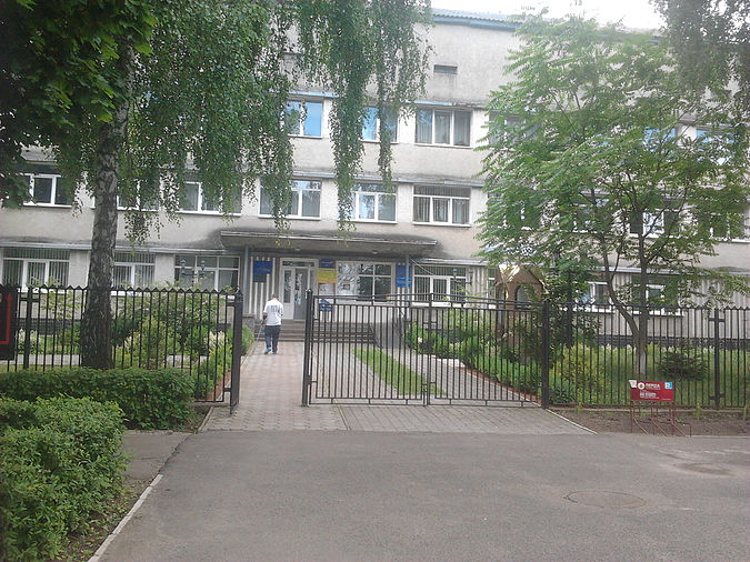 Санепідемстанція